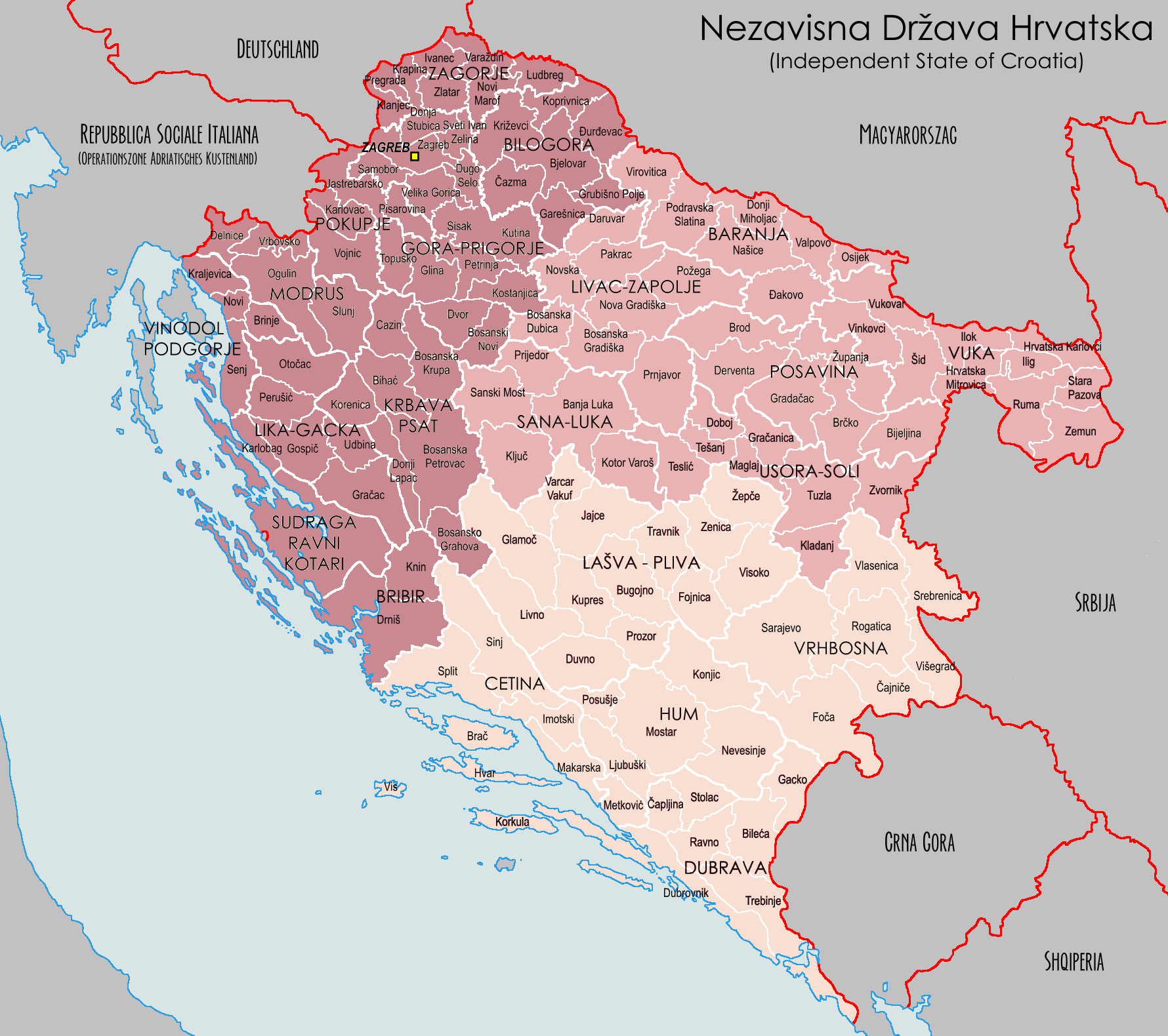 mobilisation sheme of Croatian Home Guard during WWII in Independent State of Croatia